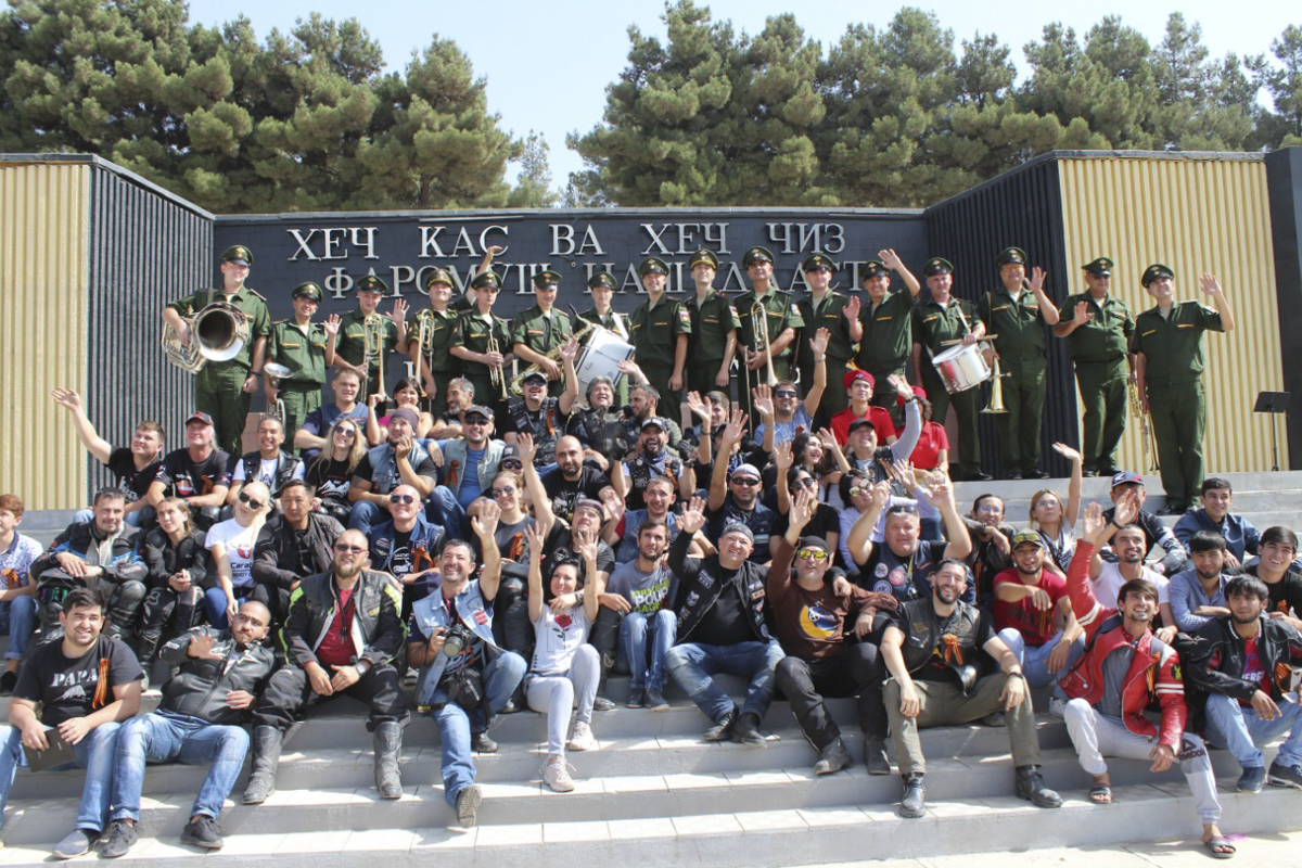 В Таджикистане прошел мотопробег в честь акции «Георгиевская лента» с участием военнослужащих 201 военной базы провели